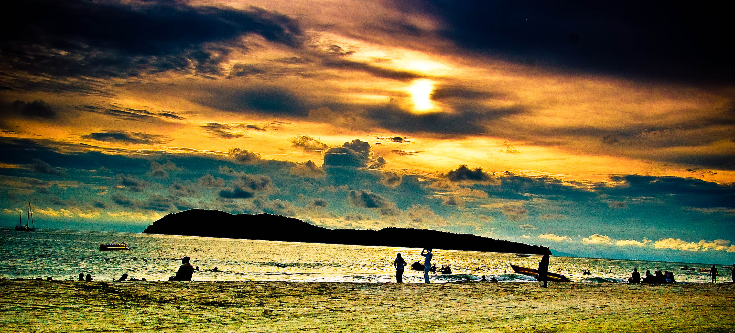 Sunset at Chenang Beach